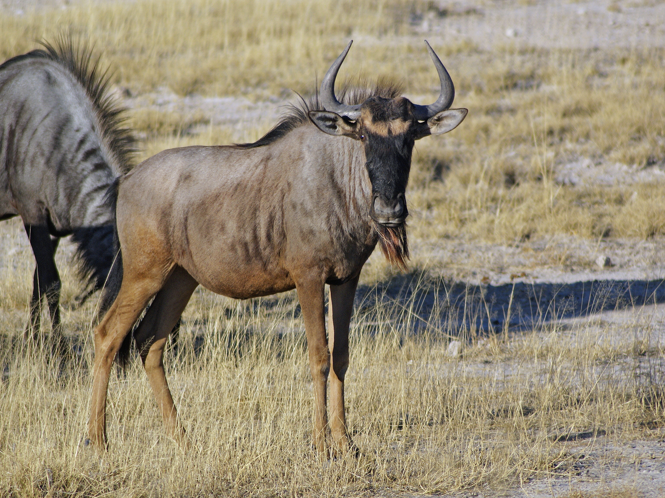 Blue Wildebeest north of Namutoni, Etosha National Park, Namibia